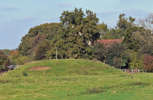 Shawell Castle Shawell Castle is a damaged 12th century earthwork motte and bailey fortress, founded during the Anarchy, in the reign of King Stephen. The low circular flat-topped motte, retains part of its surrounding wide ditch and some distance to the south, stands a small circular earthwork mound. This mound was part, of a series of defensive bailey earthworks, that are known to have existed. 2 miles south-east is Lilbourne Castle and 6 miles north is Gilmorton Castle. Source